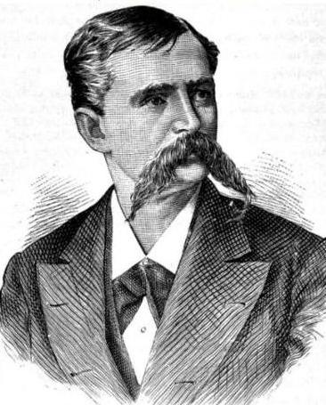 Louis C. Latham, US Representative from North Carolina